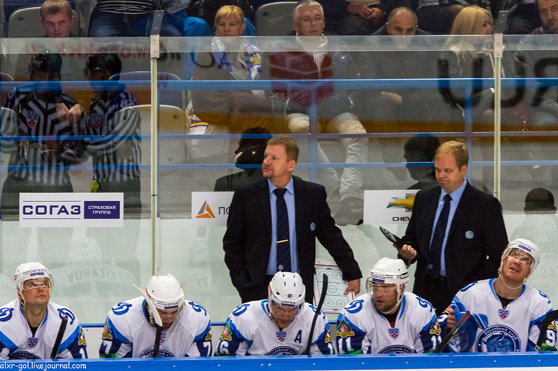 HC Dinamo Minsk bench during KHL game vs. Amur Khabarovsk on September 26, 2012. Head coach Kari Heikkilä (at center), goaltending coach Ari Hilly. Players (from left to right): Andrei Mikhalev, Alexander Kitarov, Geoff Platt, Alexander Kulakov, Teemu Laine.